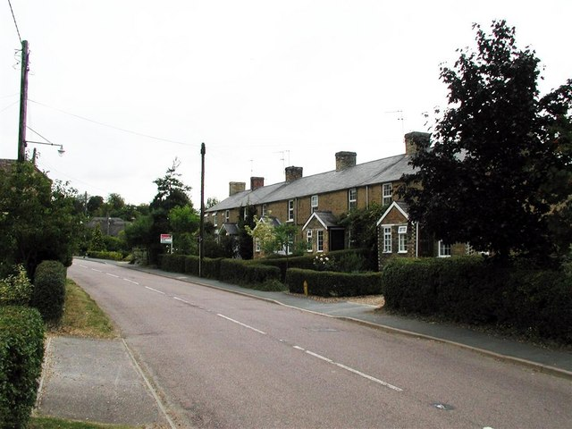 New Row - High Street - Abbotsley The farthest end dwelling was the Butchers and Grocers and the Post Office. It is now a house.